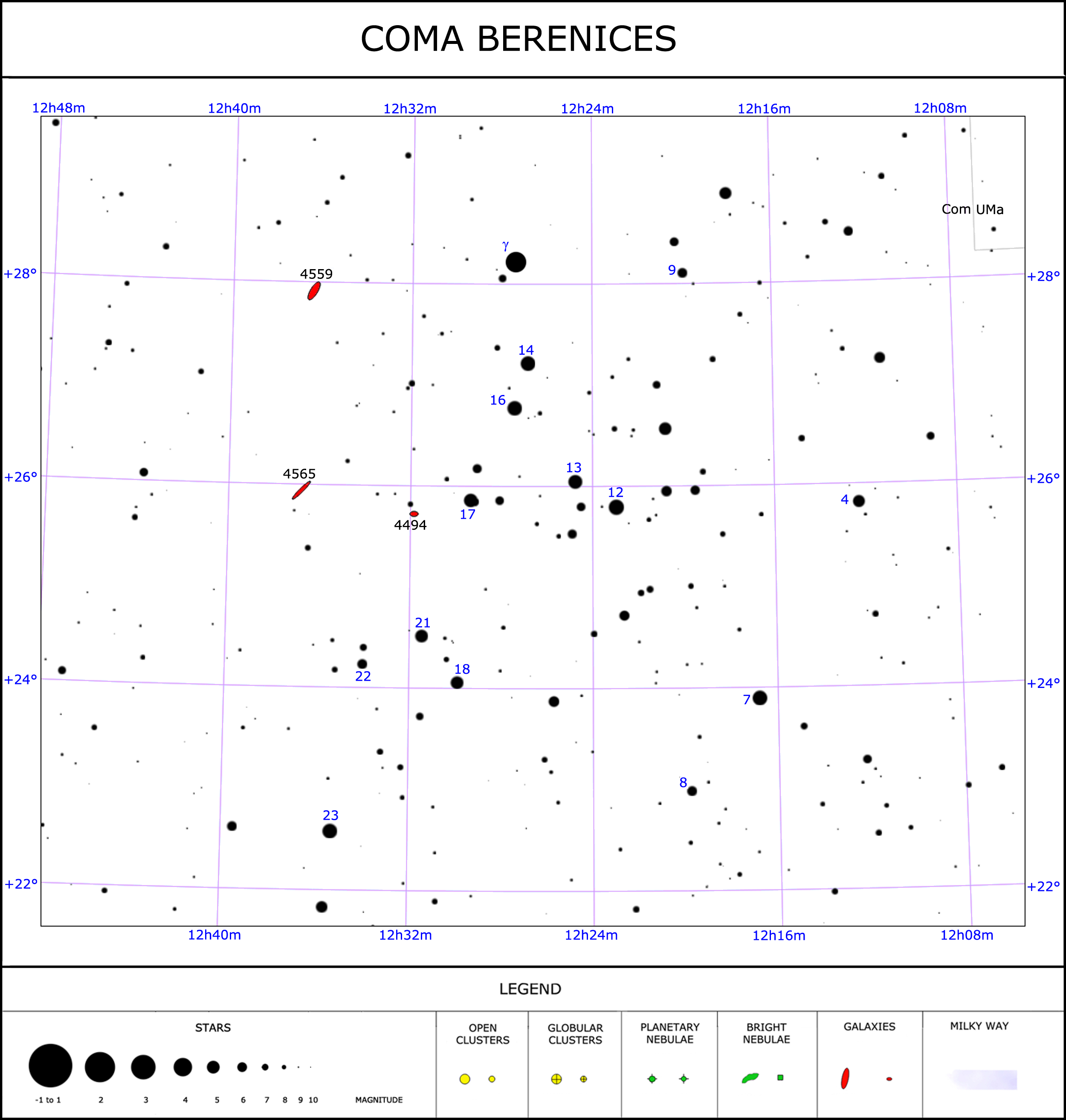 Map of the Coma star cluster from a southern perspective.